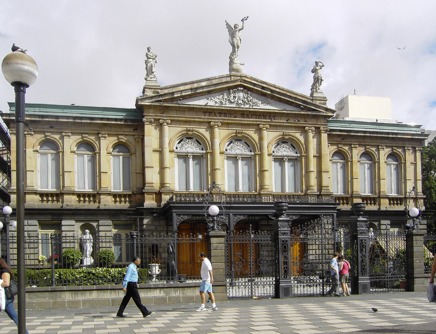 The National Theatre of Costa Rica in San José.